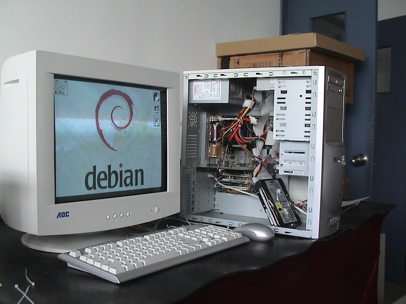 Debian GNU/Linux The computer is being prepared to be used in 2002 National Olympiad in Informatics.